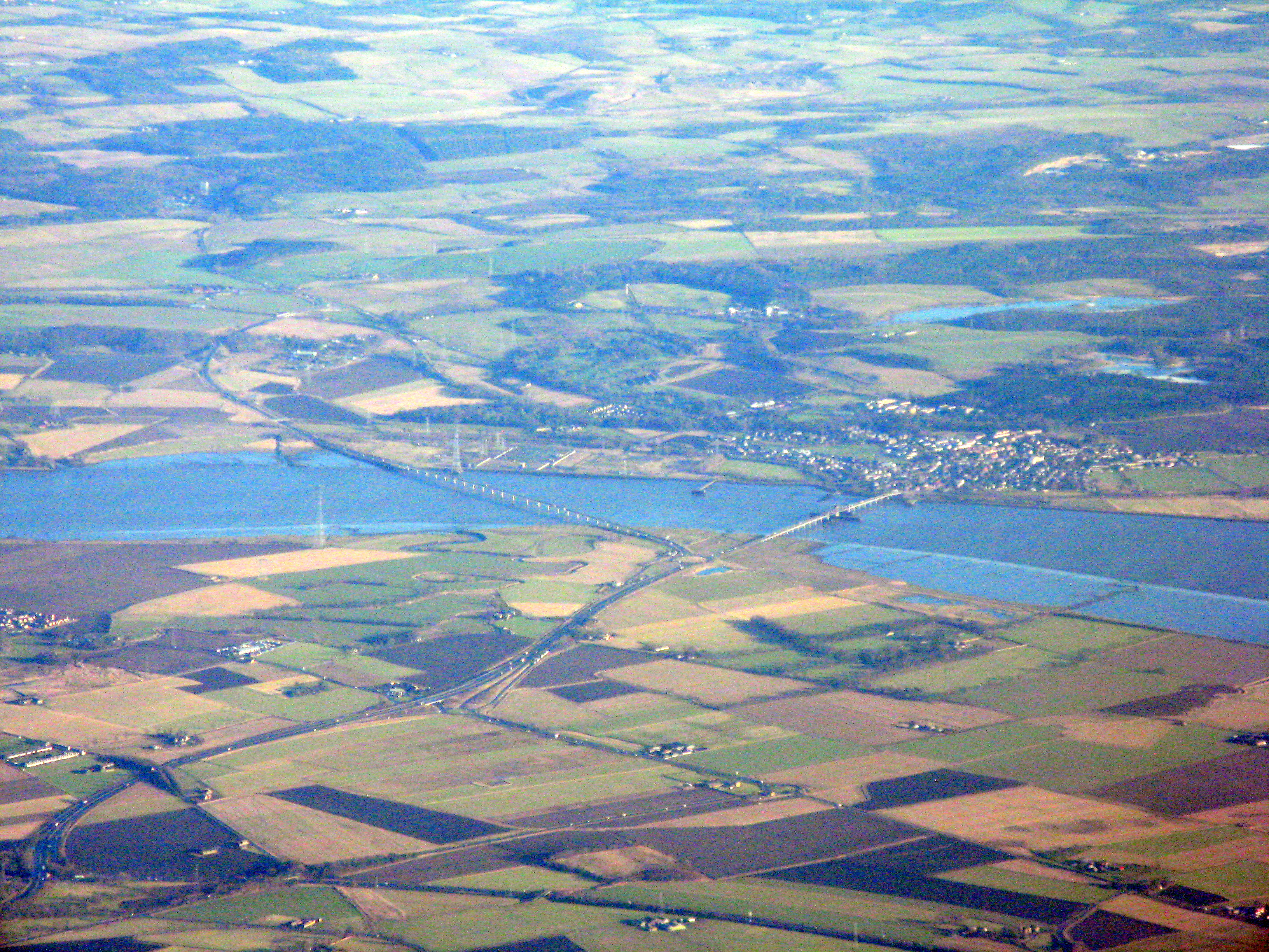 Bridges over the River Forth The old Kincardine on Forth Bridge [A876] and the newer Clackmannanshire Bridge[A985]. Kincardine on Forth is the village at the north end of the old bridge.